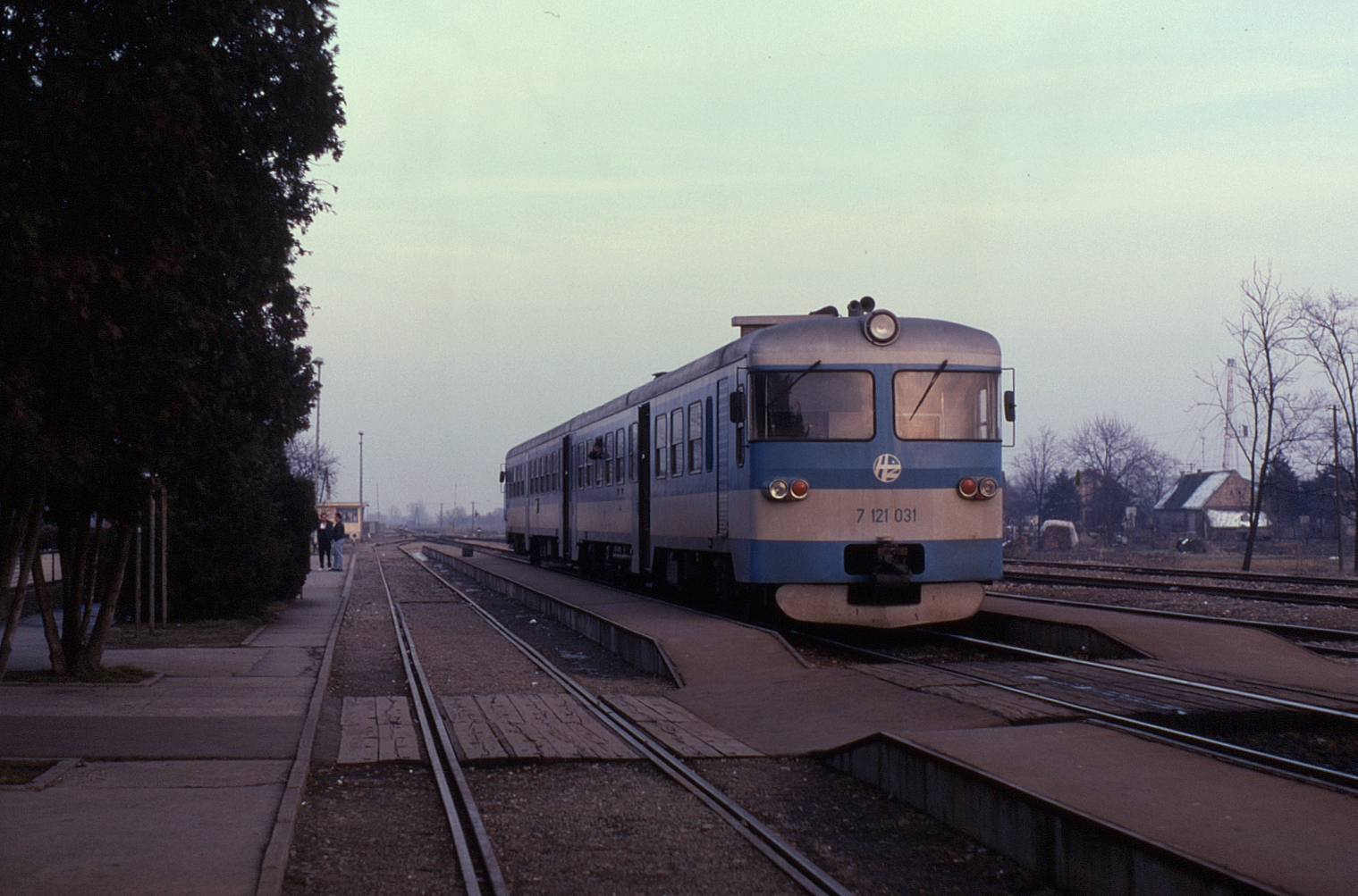 2-car DMU 7121.031 at Belišće on 11 February 1997 with its next working, train 6057 16:13 Belišće to Bizovac